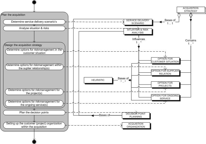 A model for the design of an acquisition strategy, part of the Acquisition planning for the Acquisition Initiation, created by M.C.A. Luking, April 12th 2006